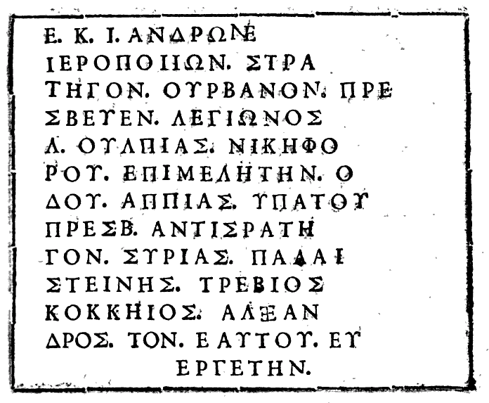 Syria Palestine inscription in De itinere suo Constantinopolitano Ε. Κ. Ι. ΑΝΔΔΡΩΝΕ ΙΕΡΟΠΟΙΙΩΝ. ΕΣΤΑ ΤΗΓΟΝ. ΟΥΡΒΑΝΟΝ. ΠΡΕ ΣΒΕΥΕΝ. ΛΕΓΙΩΝΟΣ Λ. ΟΥΛΠΙΑΣ. ΝΙΚΗΦΟ ΡΟΥ. ΕΠΙΜΕΛΗΤΗΝ. Ο ΔΟΥ. ΑΠΠΙΑΕ. ΥΠΑΤΟΥ ΠΡΕΣΒ. ΑΝΤΙΣΡΑΤΗ ΓΟΝ. ΣΥΡΙΑΕ ΠΑΛΑΙ ΣΥΕΙΝΗΣ. ΤΡΕΒΙΟΣ ΚΟΚΚΗΙΟΣ. ΑΛΞΑΝ ΔΡΟΣ. ΤΟΝ. ΕΑΥΤΟΥ. ΕΥ ΕΡΓΕΤΗΝ.